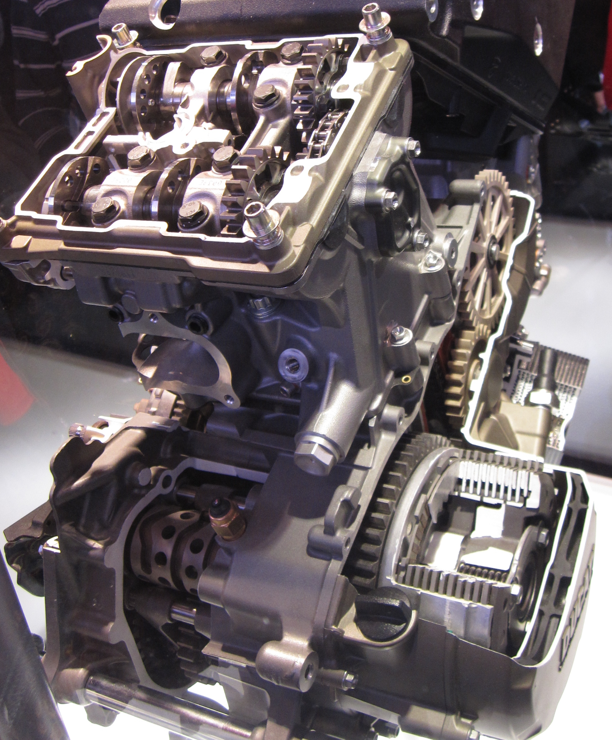 The Ducati Superquadro, the Ducati 1199 Panigale engine. Picture taken at the 2011 EICMA Milan Motorcycle show. We can see the the desmo overhead camshaft.